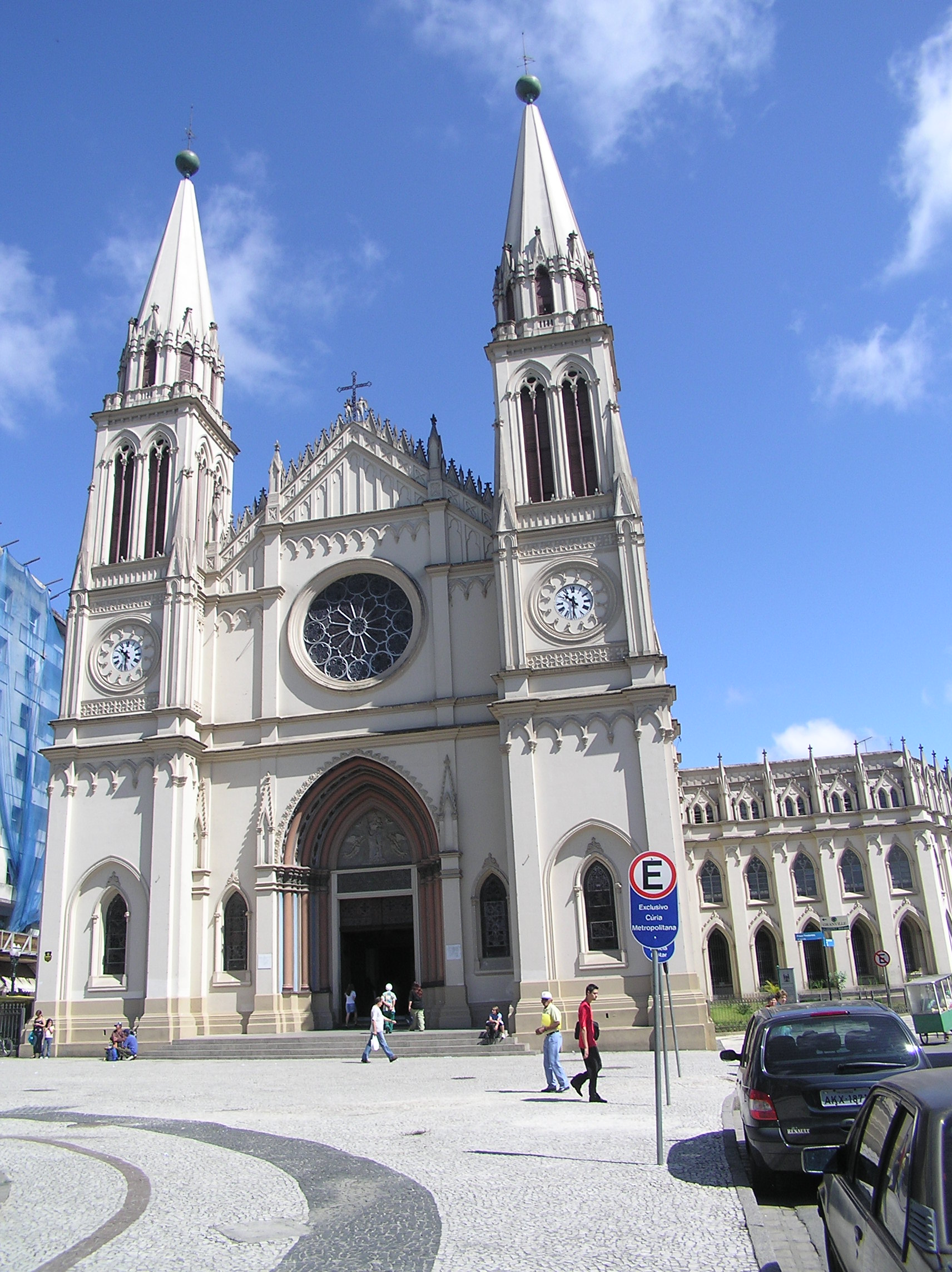 Metropolitan Cathedral, the Basilica of Nossa Senhora da Luz in Curitiba.